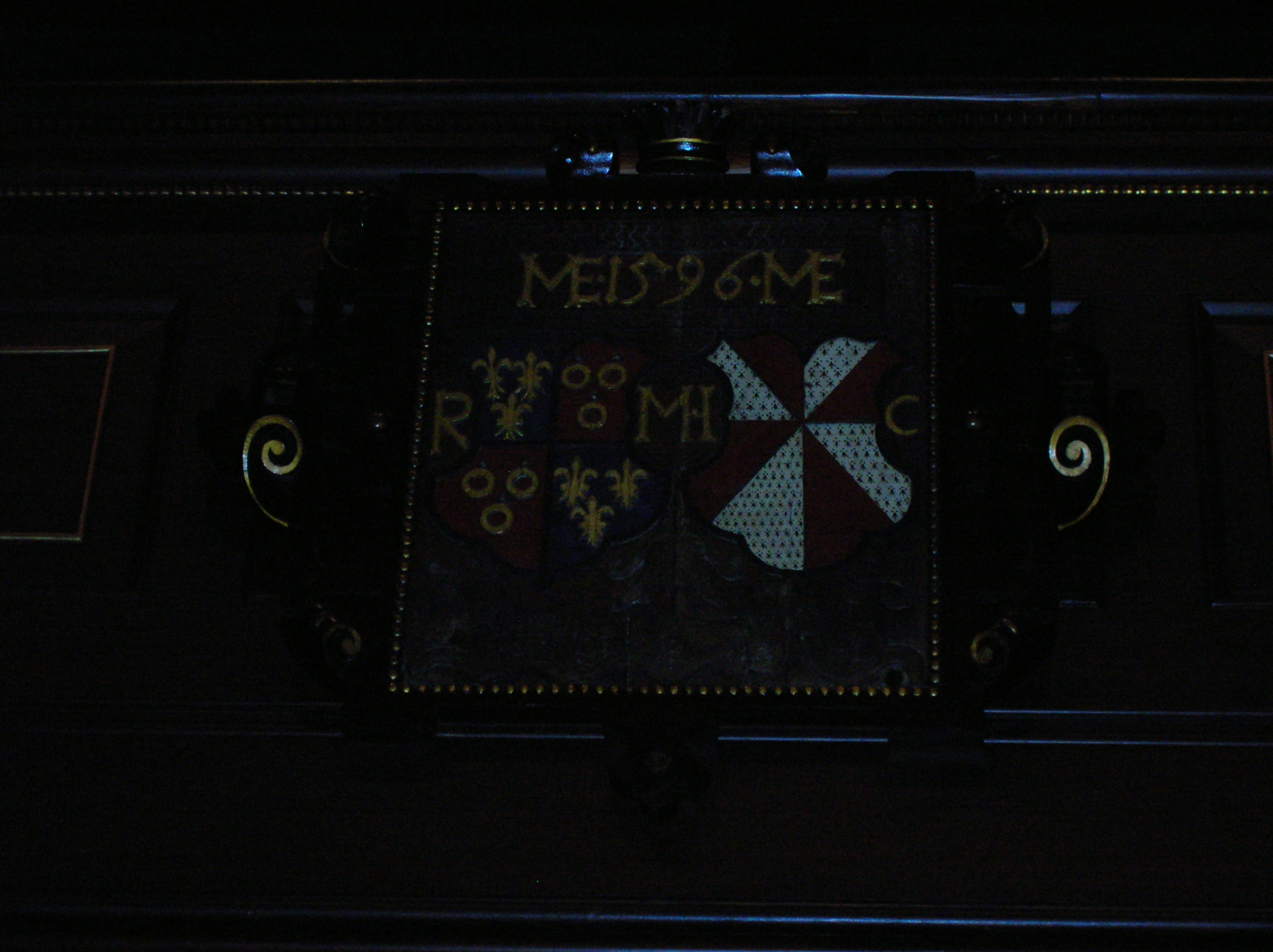 The Barony of Giffen coats of arms in Beith Kirk, North Ayrshire, Scotland.